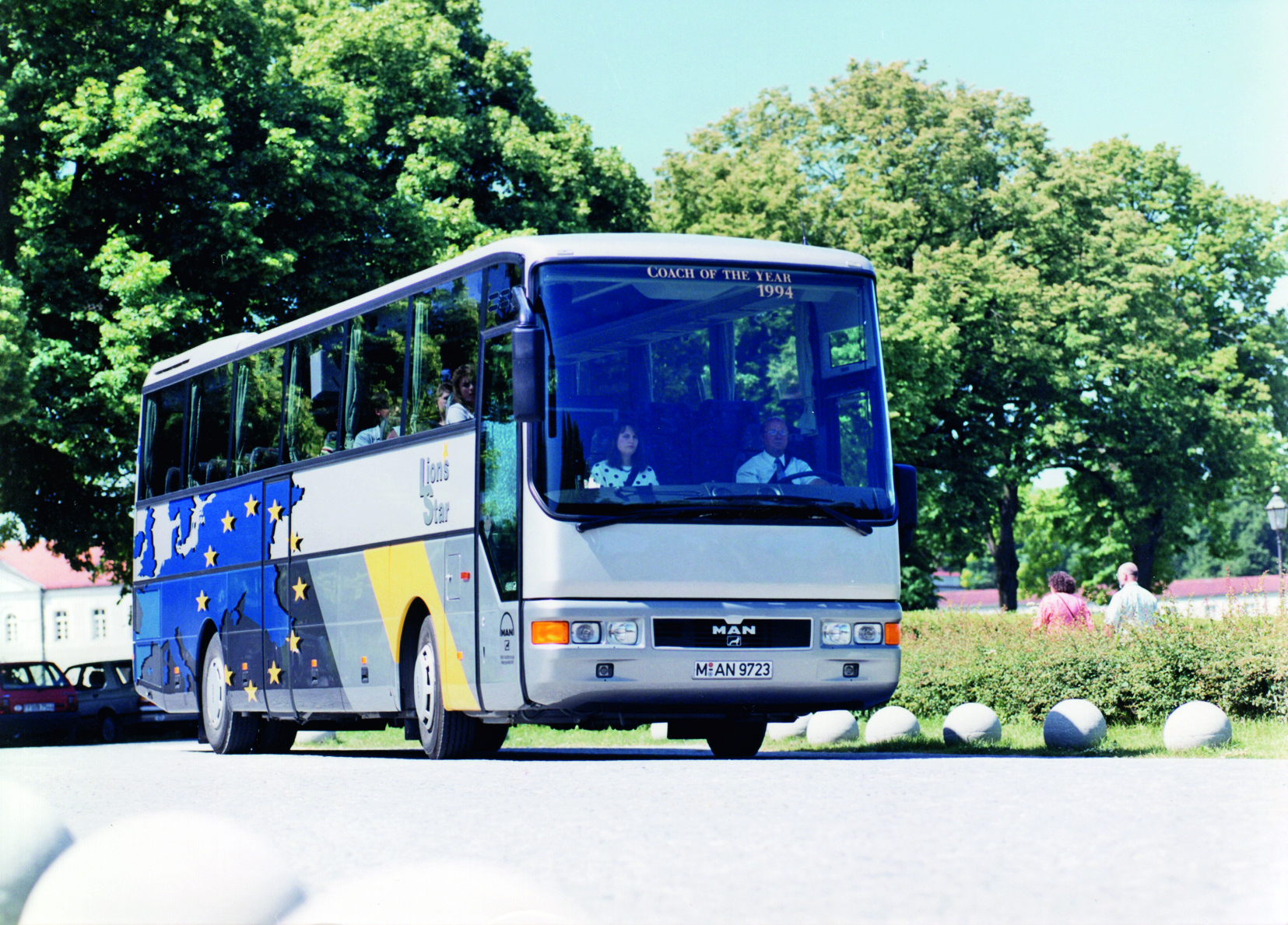 The bus MAN Lion's Star became ”Coach of the Year” in 1994.